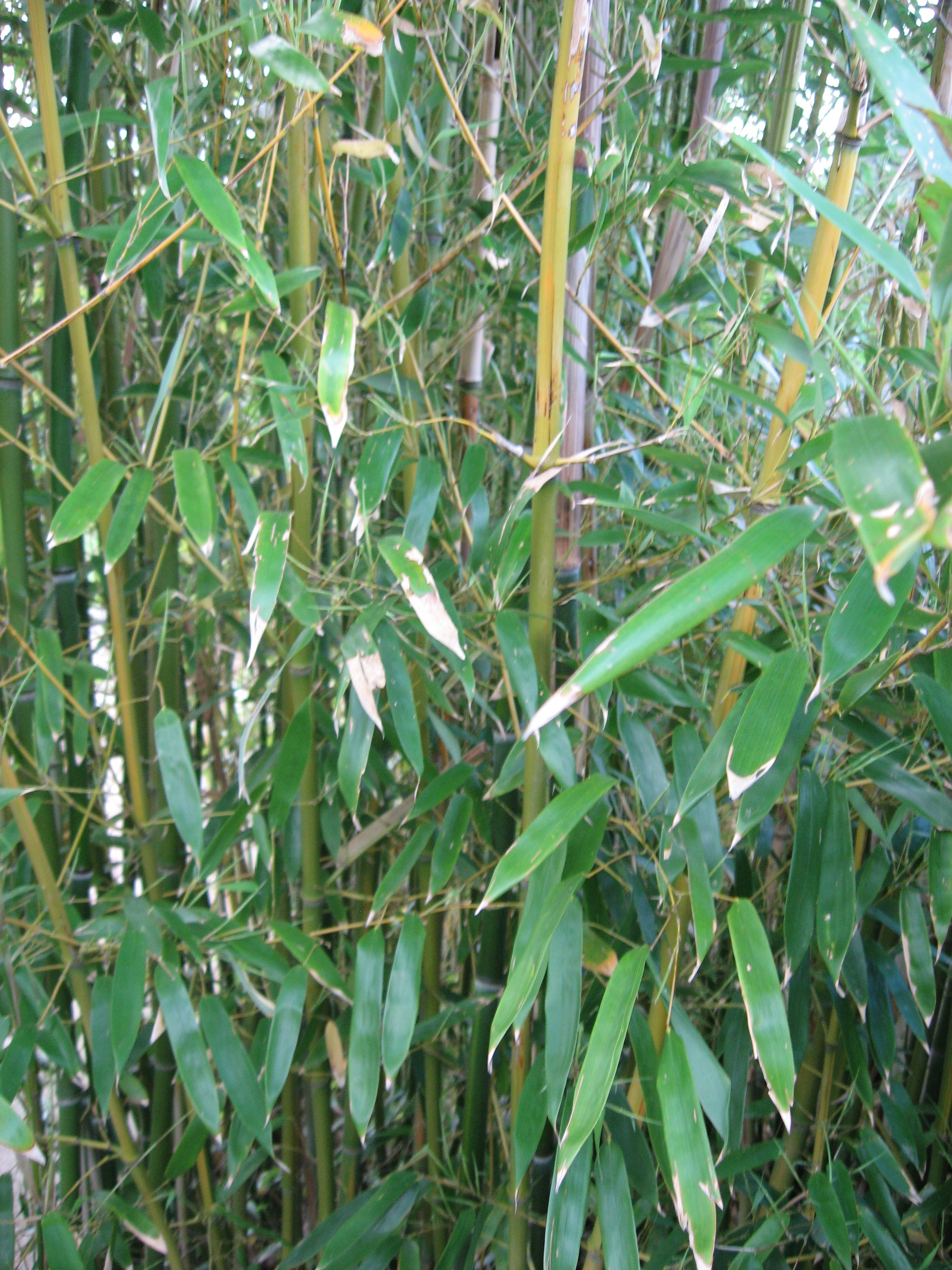 A picture of Phyllostachys aureosulcata.